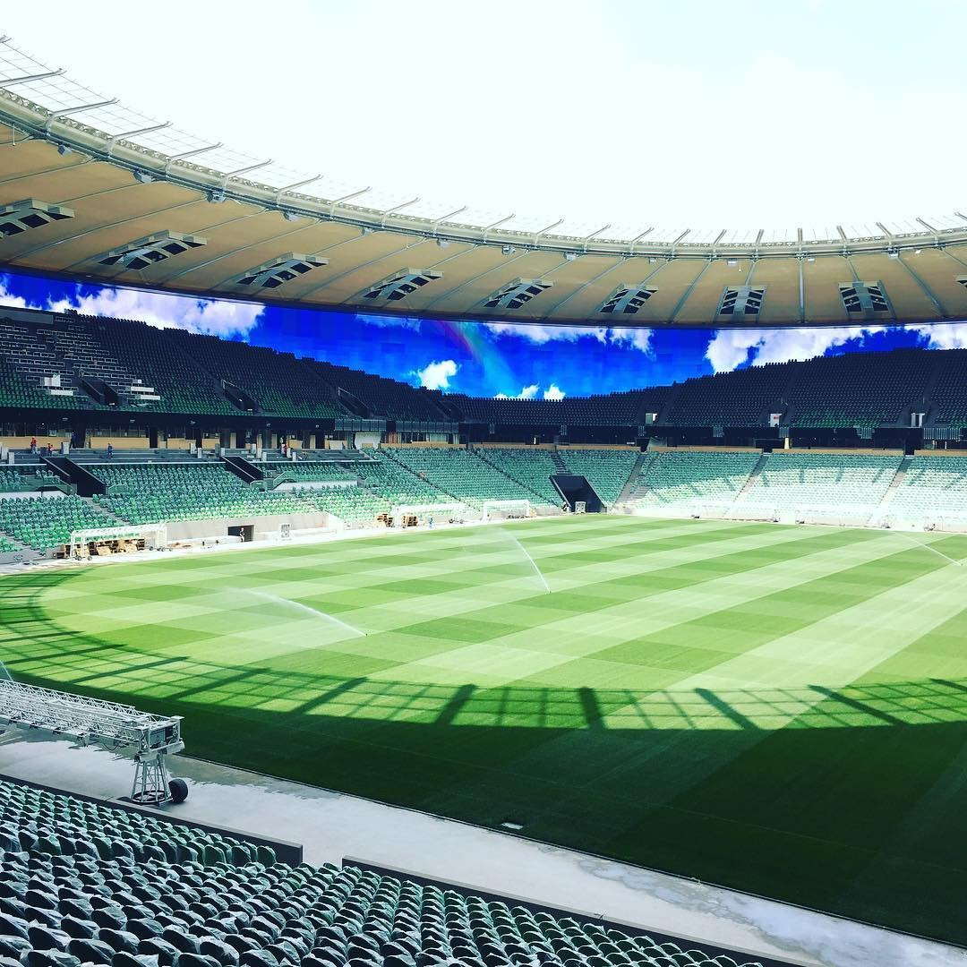 Krasnodar Stadium